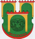 Coat of arms of Witterda